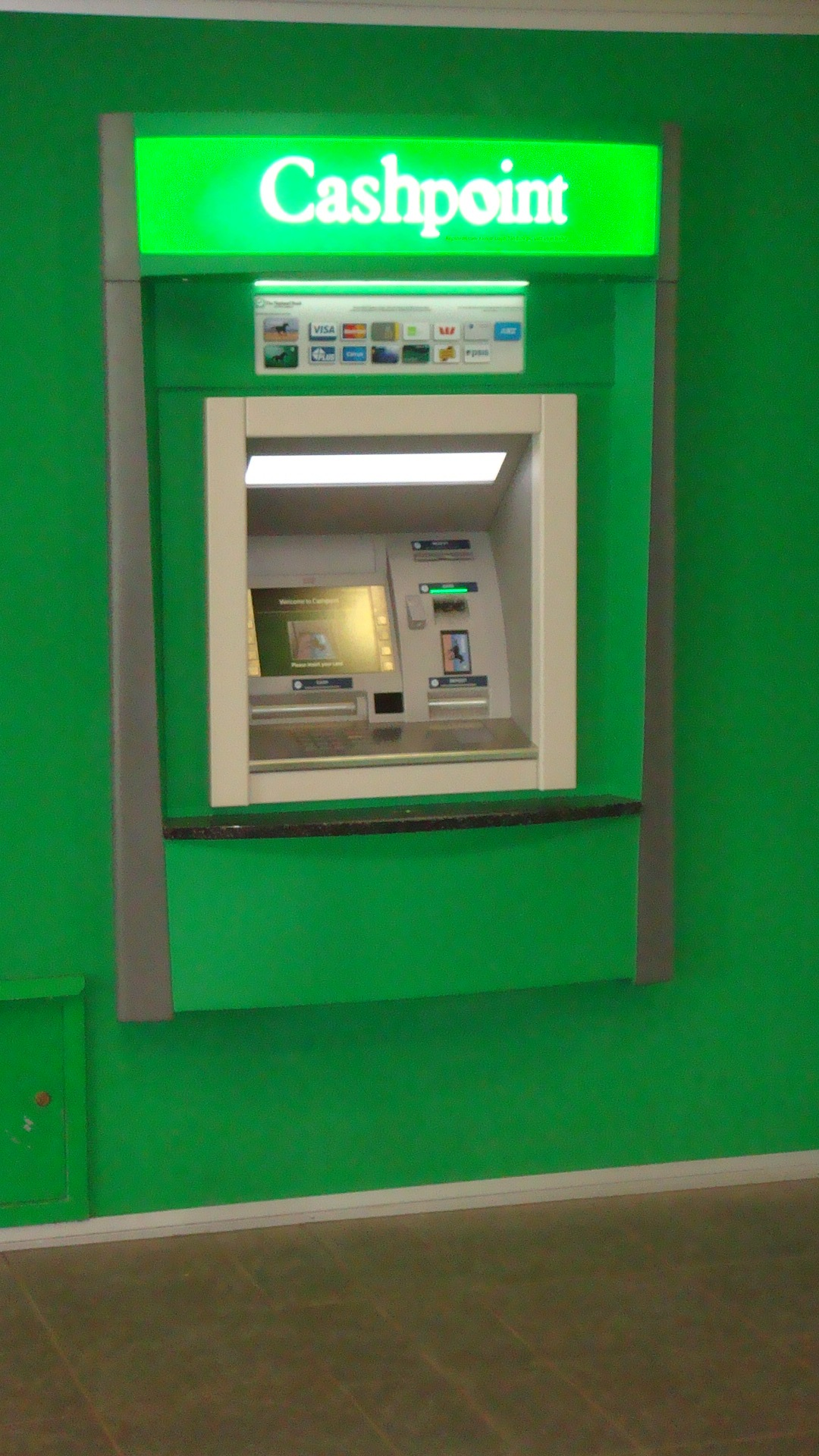 A National Bank cashpoint machine located in the Kate Edger Information Commons at the University of Auckland city campus. This machine is just outside a branch of the National Bank on level 1 of the Commons.